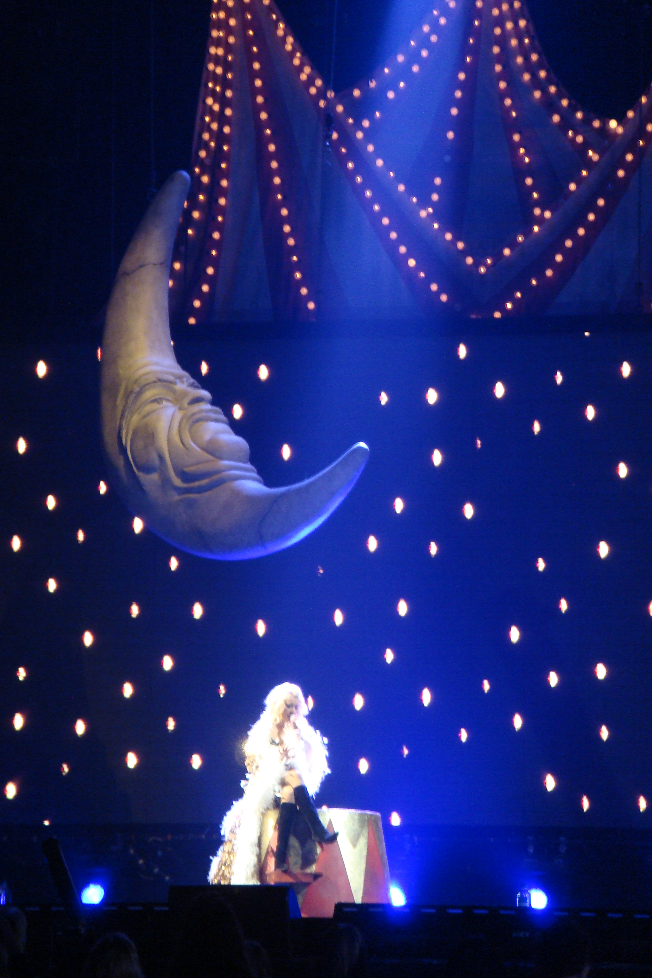 "Hurt" by Christina Aguilera